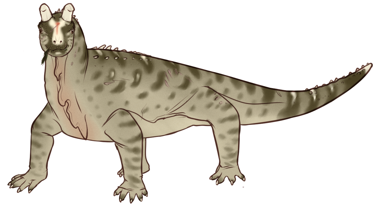 Life restoration of Shringasaurus indicus